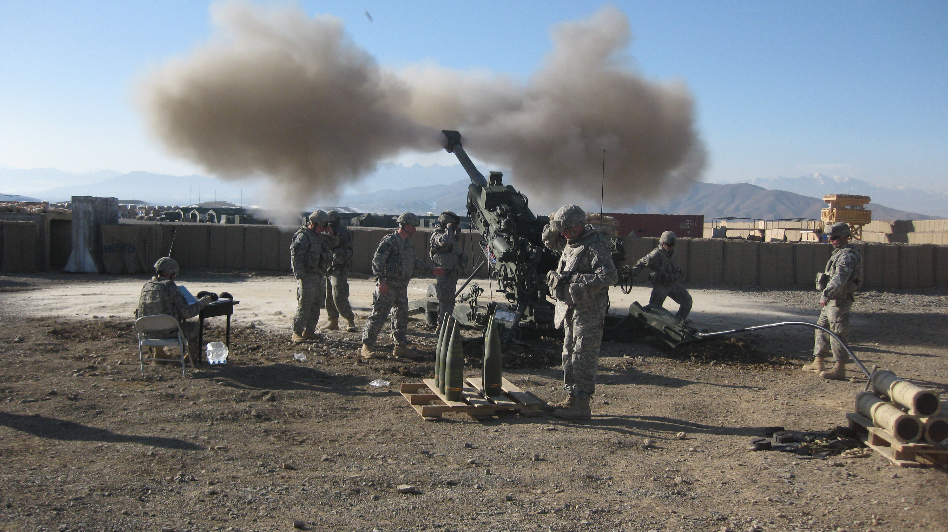 M777 Light Towed Howitzer in Logar Province Afghanistan